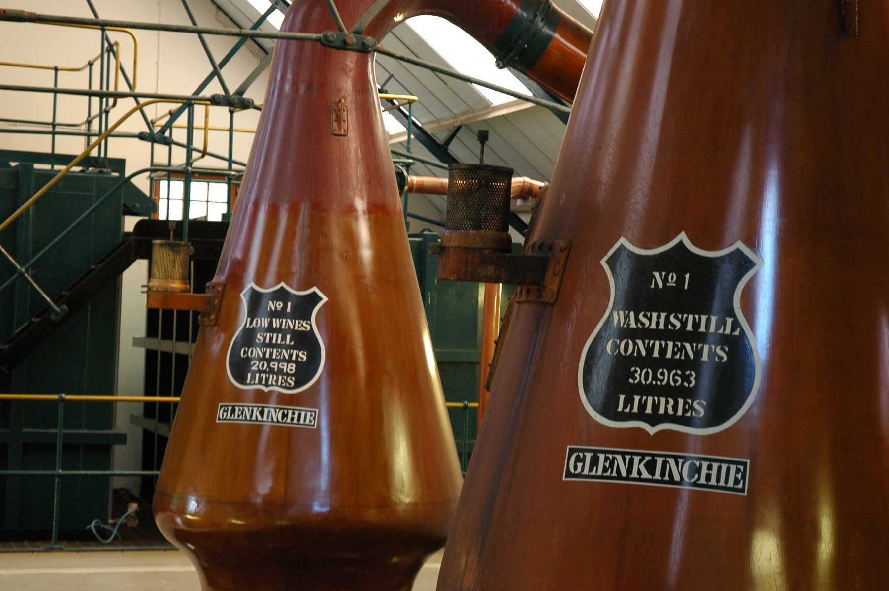 Glenkinchie distillery stills